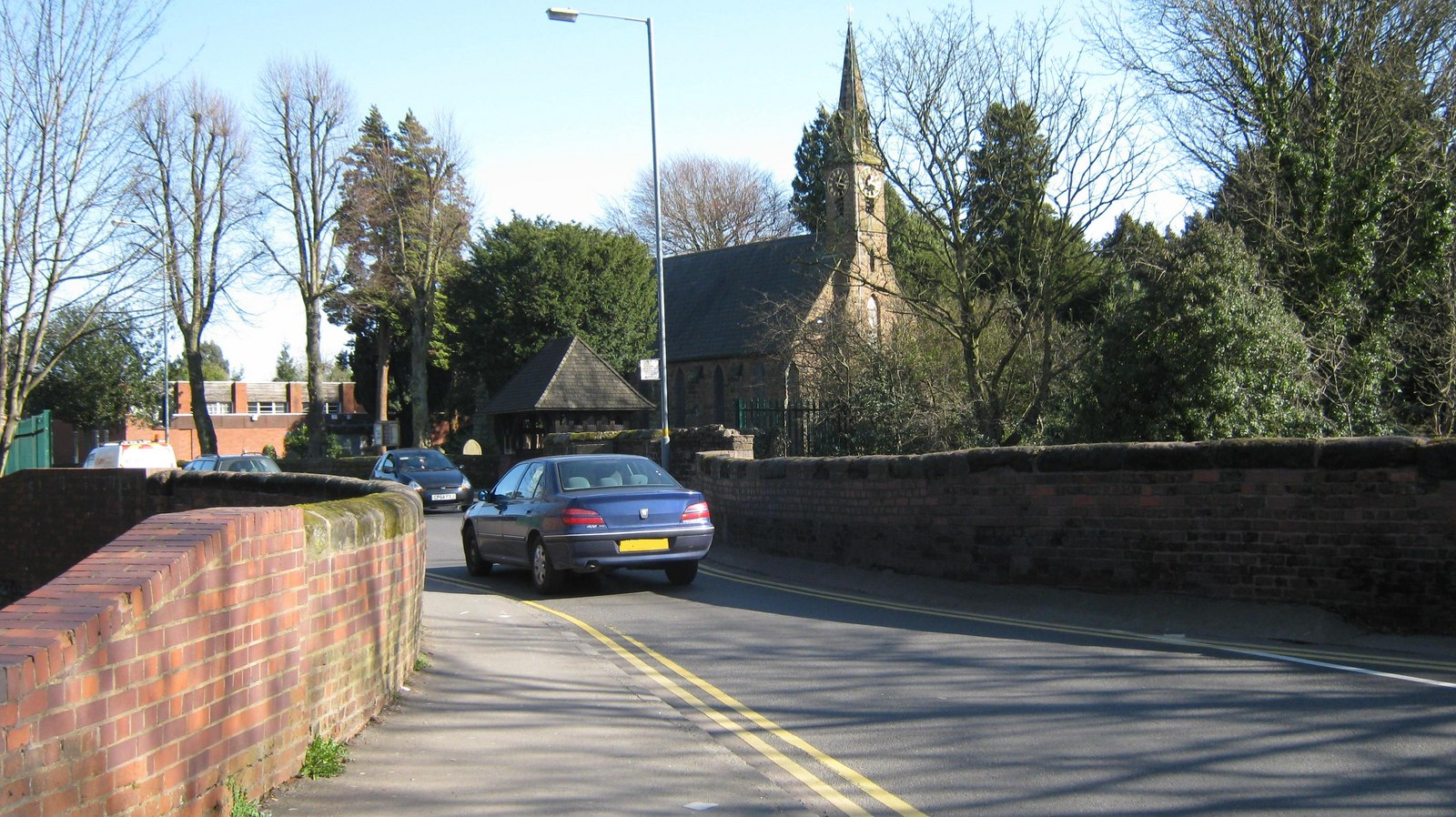 Narrow Road Bridge, Yardley Wood